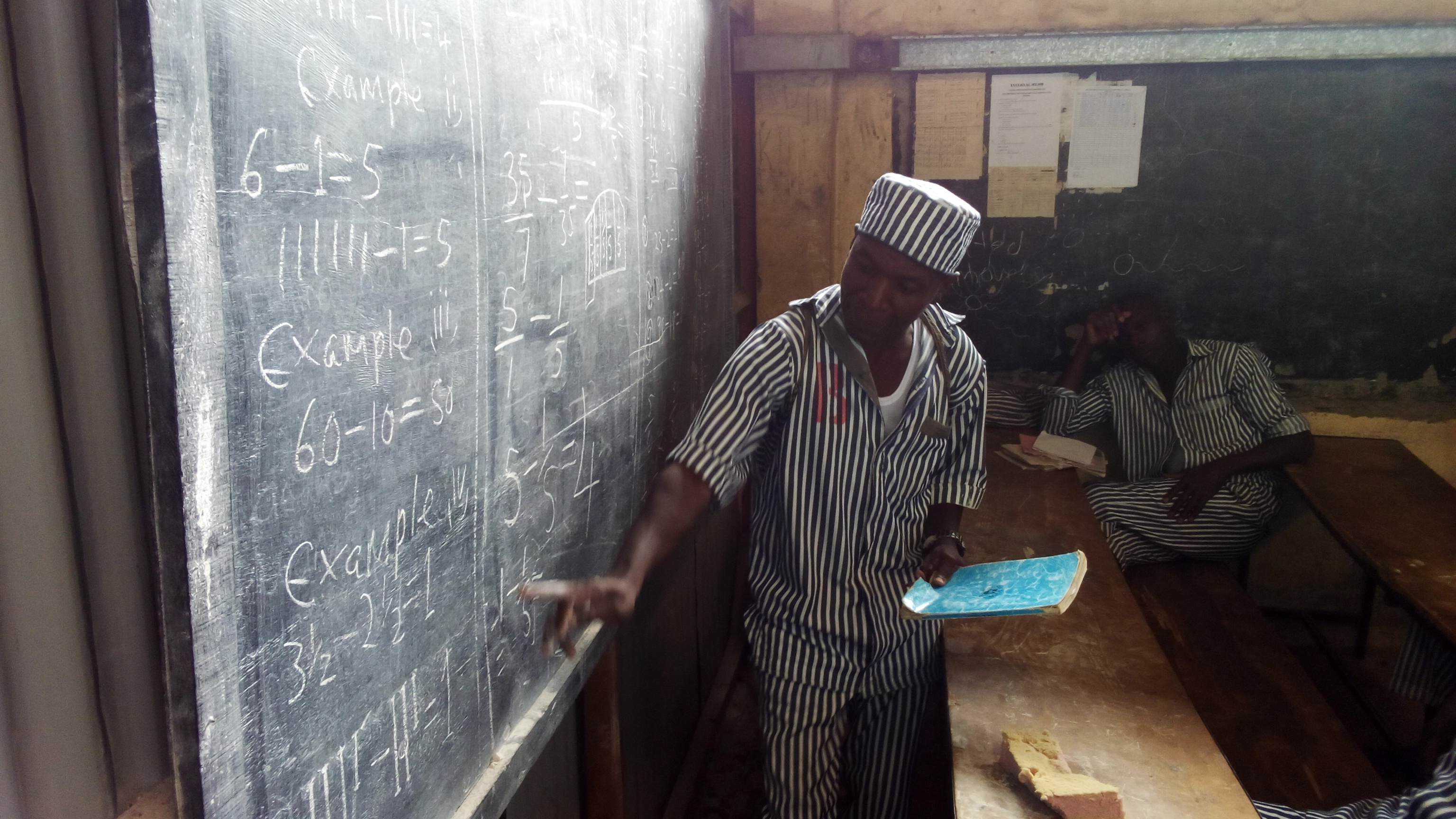 Inmate teacher teaching fellow inmates in a Kenyan prison This is an image of "African people at work" from Kenya